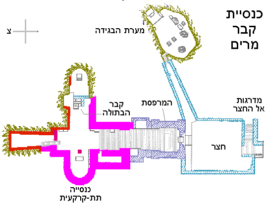 Plan of Mary's Tomb, in Jerusalem